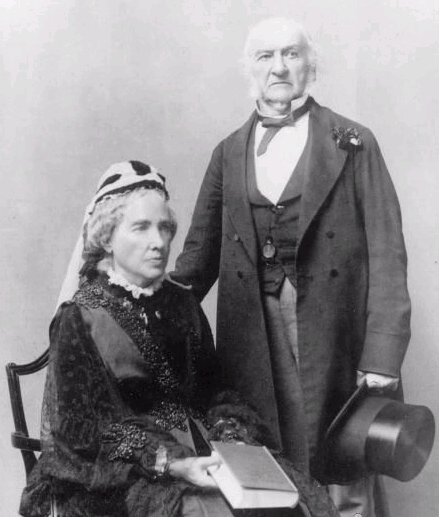 Cropped from a Carte de Visite of Catherine and William Gladstone